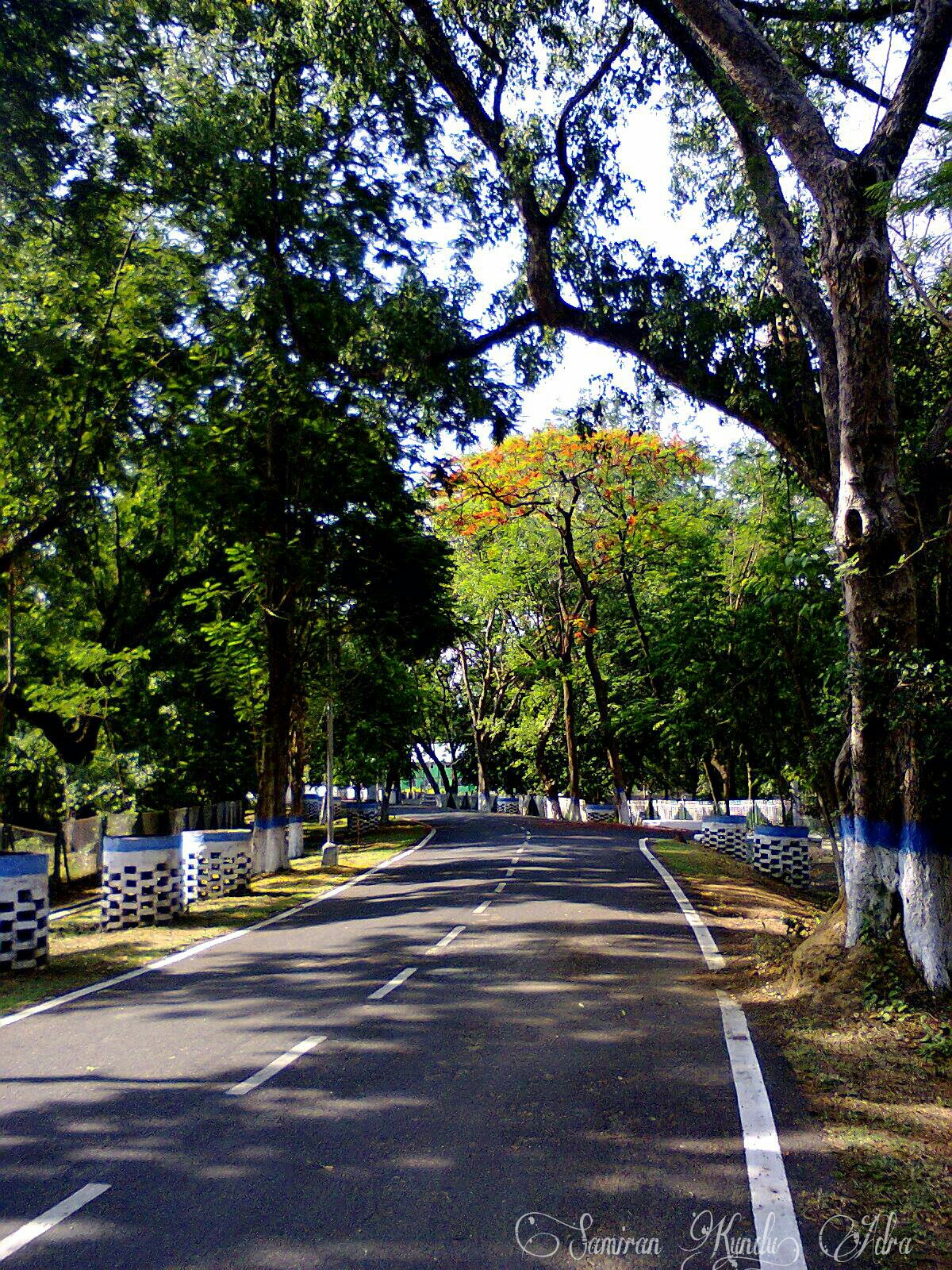 Beautiful Adra By Samiran Kundu